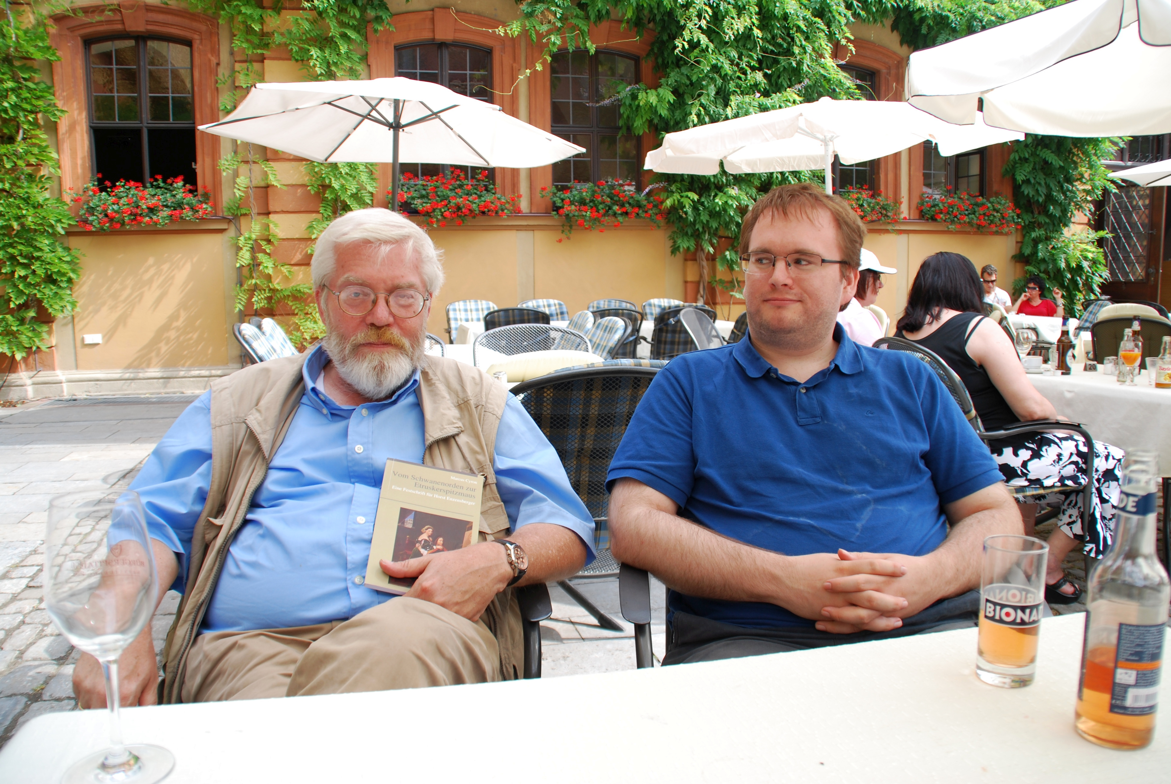 Hand over of a Festschrift for Horst Enzensberger on July 15th 2010 in Würzburg.